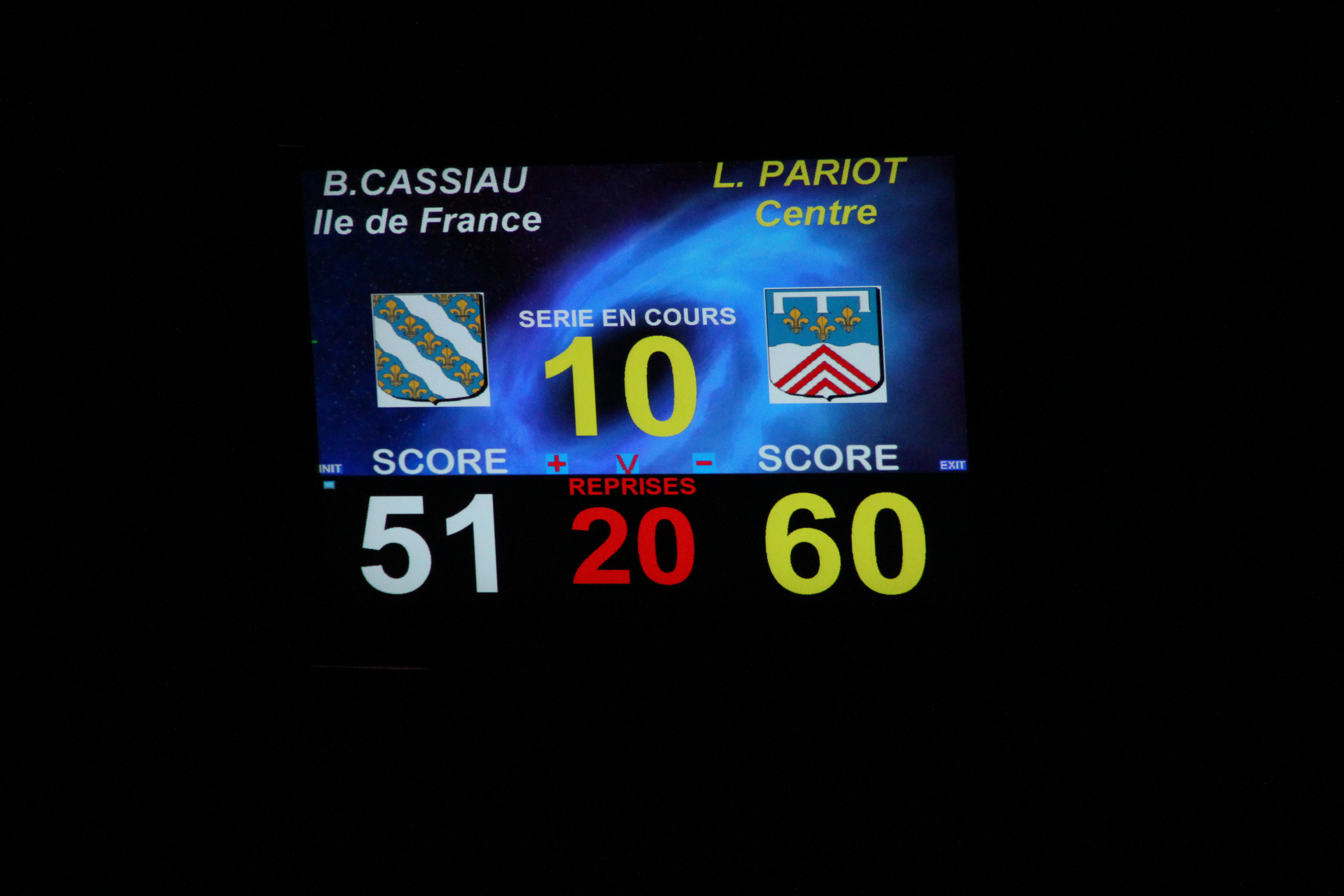 French championships of carom billiards 2012 in Voisins-le-Bretonneux.